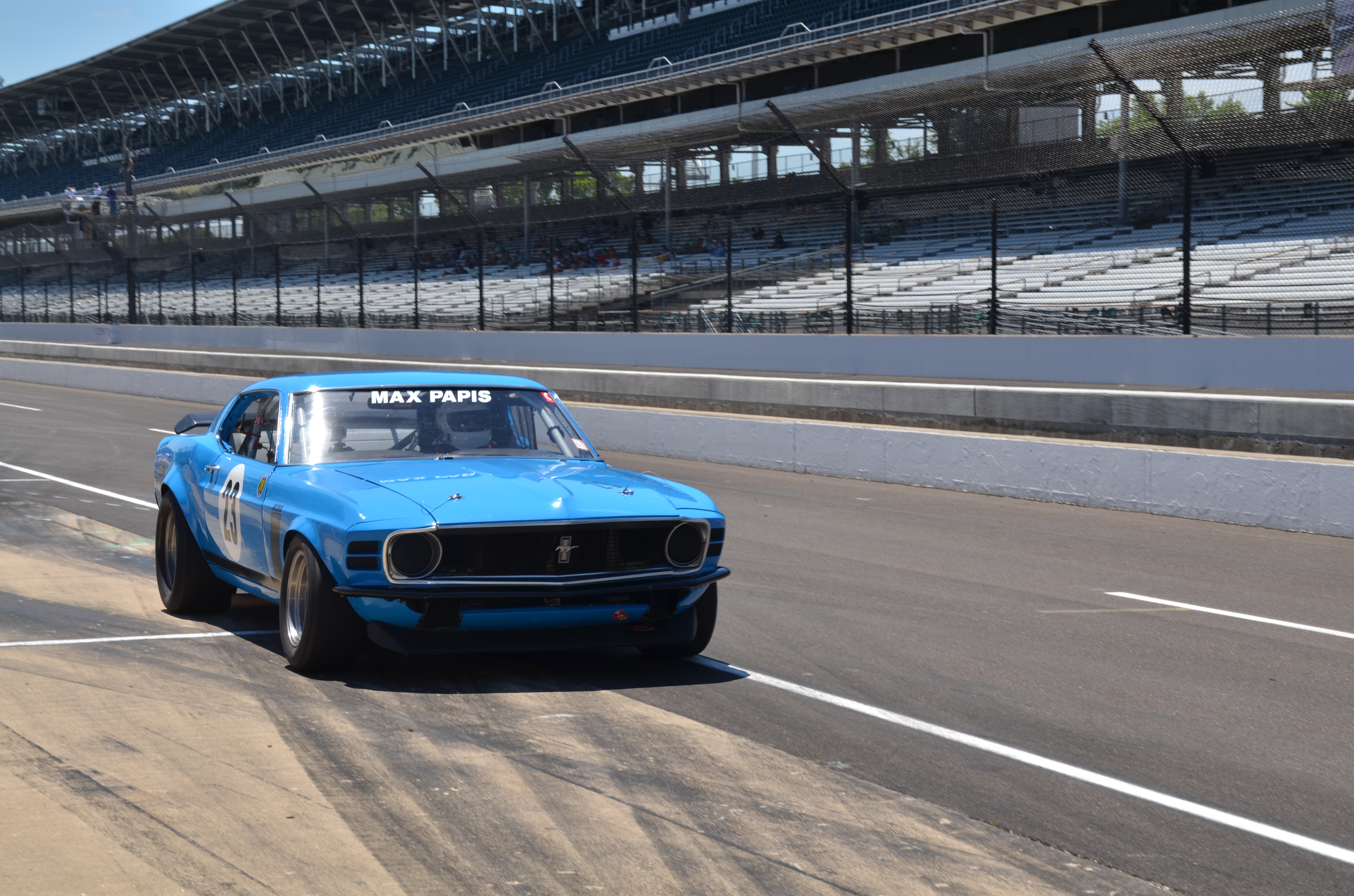 The car of Max Papis at the 2016 SVRA Brickyard Invitational Indy Legends Charity Pro-Am race (Indianapolis Motor Speedway).